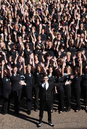 Launch of the Military Wives Choirs Foundation on 13 September 2012 at Wellington Barracks.